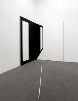 Distanze